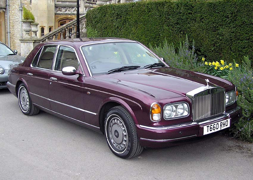 Rolls Royce Silver Seraph seen at Castle Combe, Wiltshire, England. Photographed by Adrian Pingstone in April 2004 and released to the public domain.